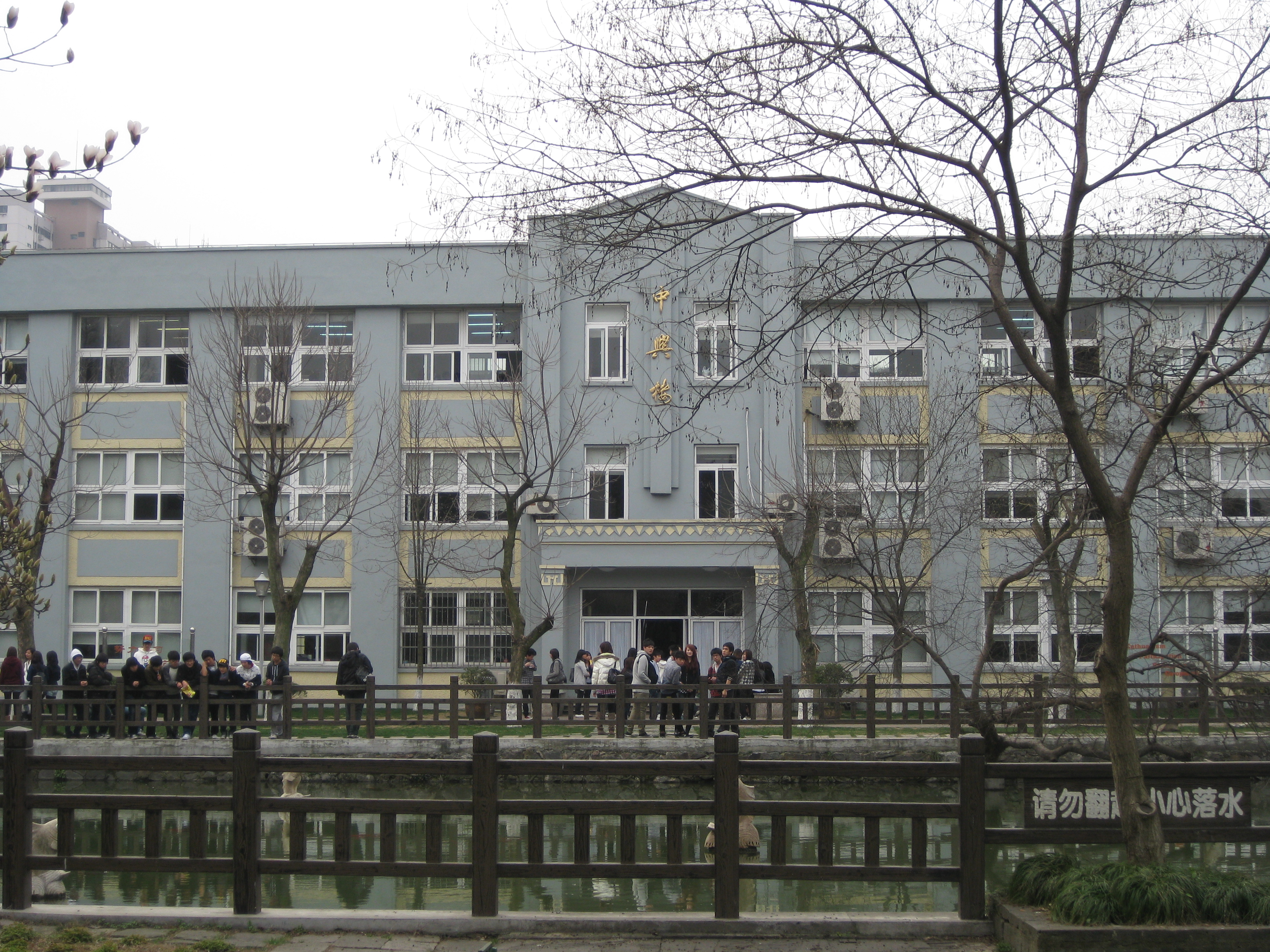 A picture of the ZX building with lake.